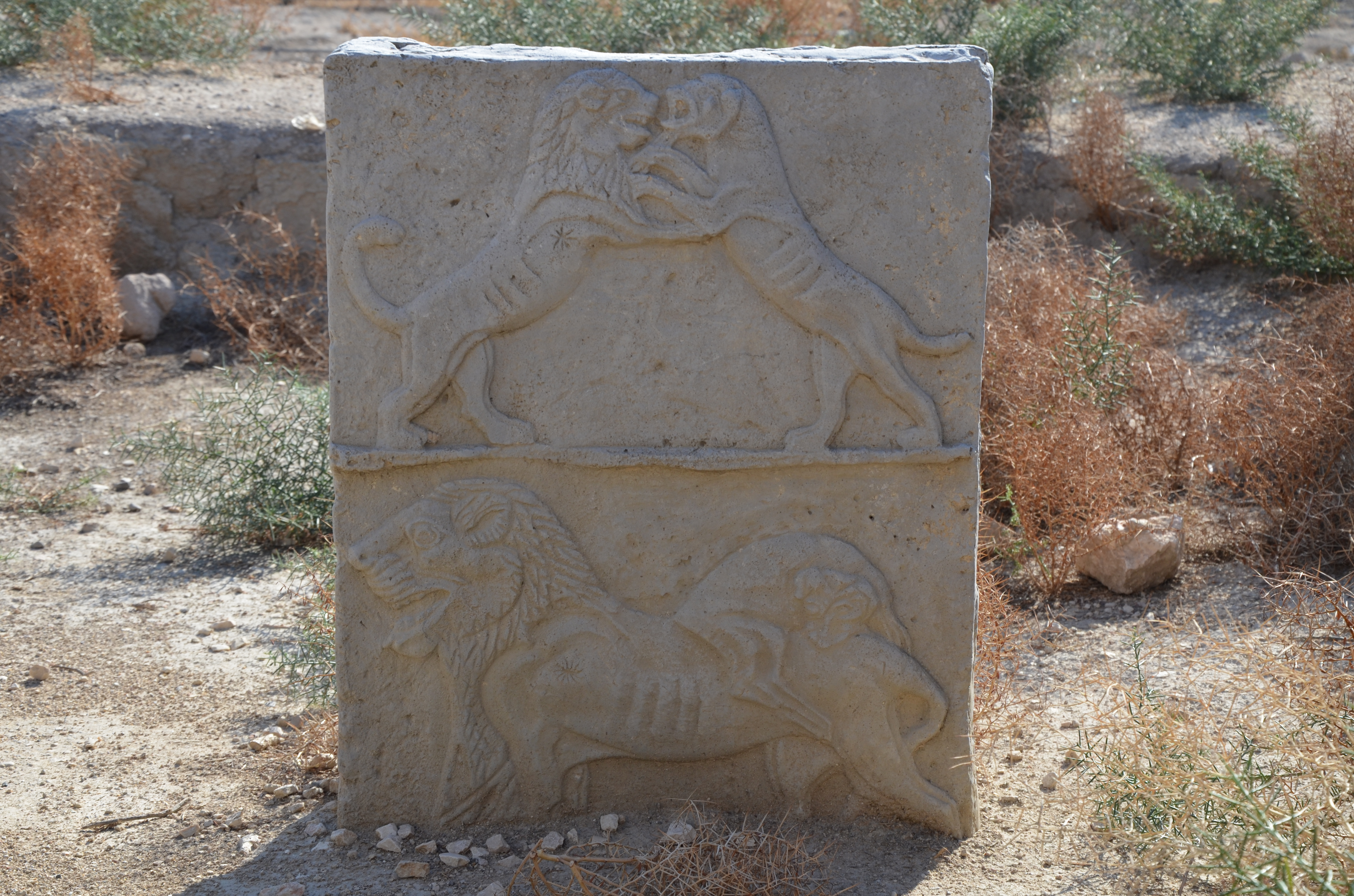 The Egyptian governor's house, 12th century BC, Scythopolis (Beit She'an), Israel